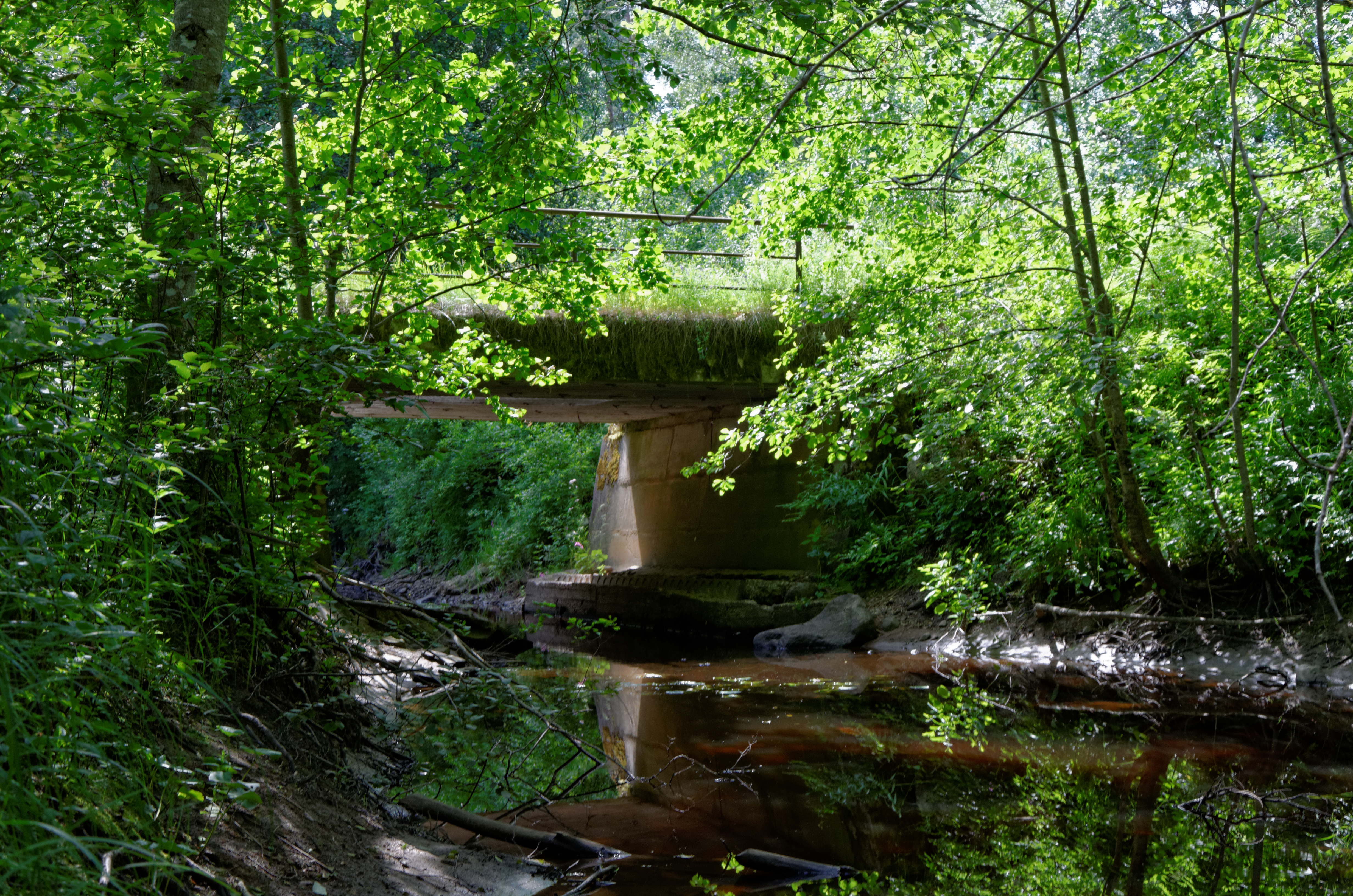 Small bridge over Ura River in Ilvese village.